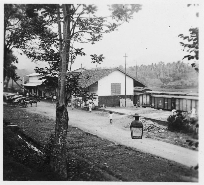 Railwaystation in Cicalengka, West-Java